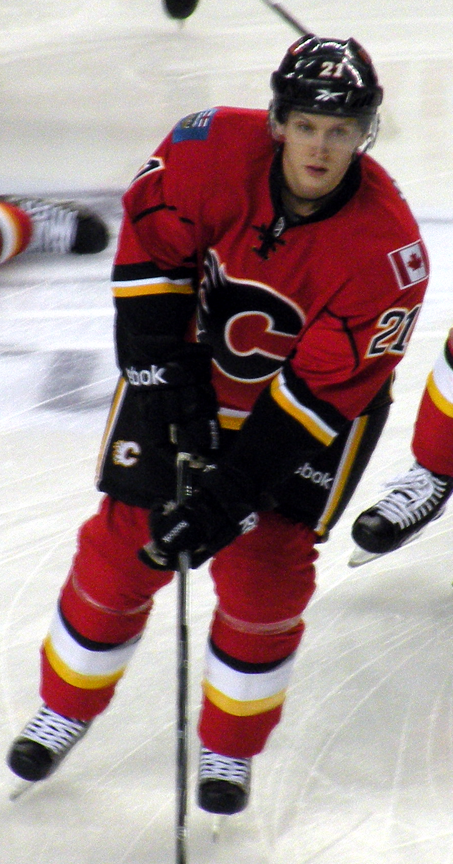 Calgary Flames defenceman Clay Wilson prior to a National Hockey League game against the Minnesota Wild, in Calgary.